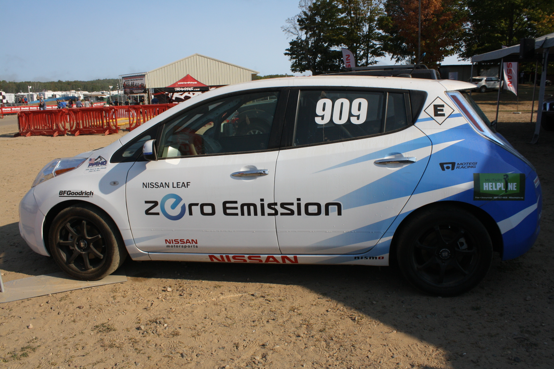 The Electric Production Class winning car the 2011 Pikes Peak Hillclimb on display at the Crandon International Off-Road Raceway. The car was driven by Chad Hord and it completed the 12.42 mile race in a record time of 14:33.